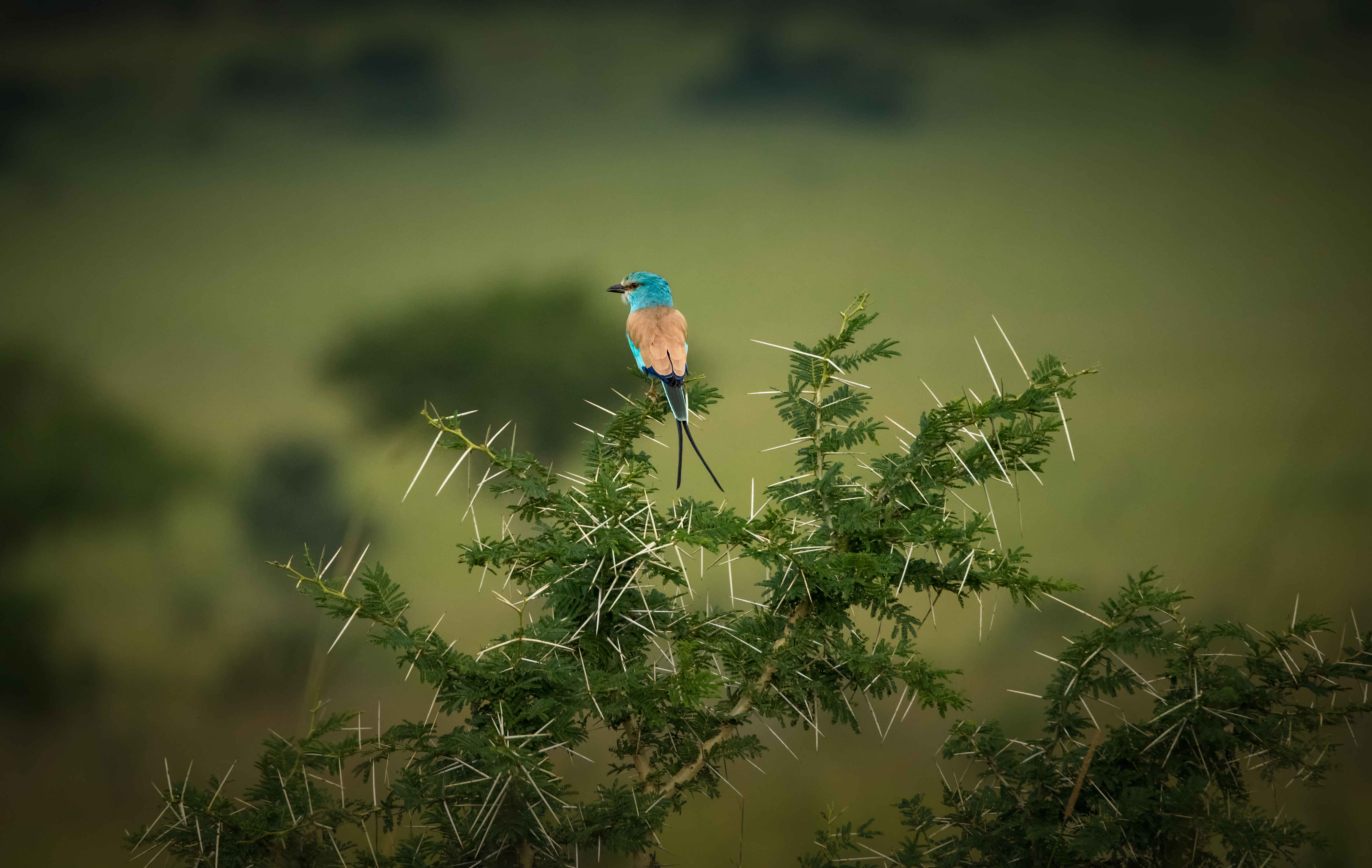 Uganda